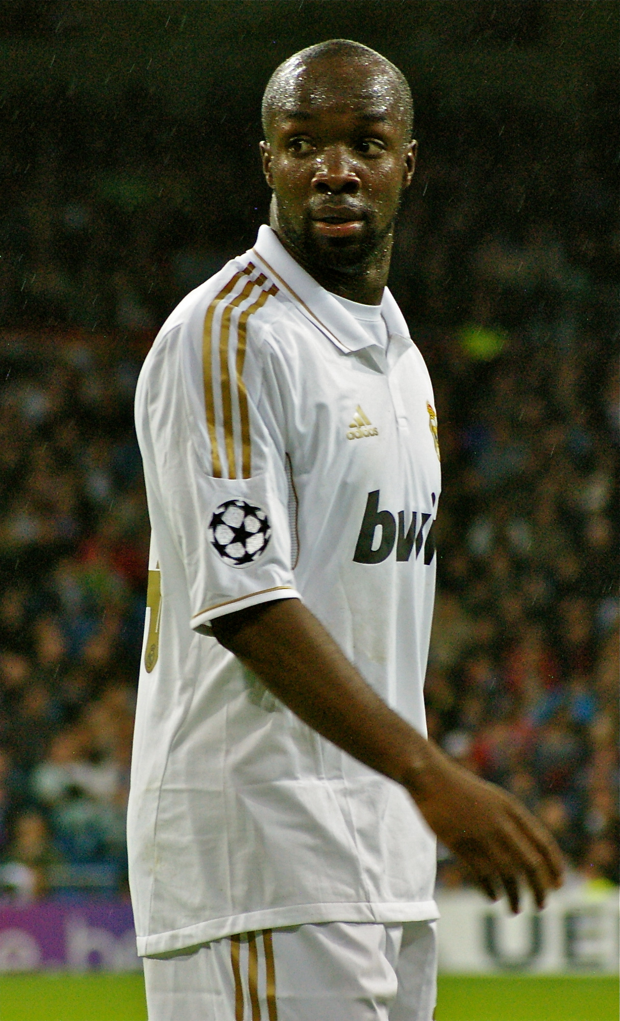 Lassana Diarra, Champions League 2011 against Dinamo Zagreb at Santiago Bernabeu